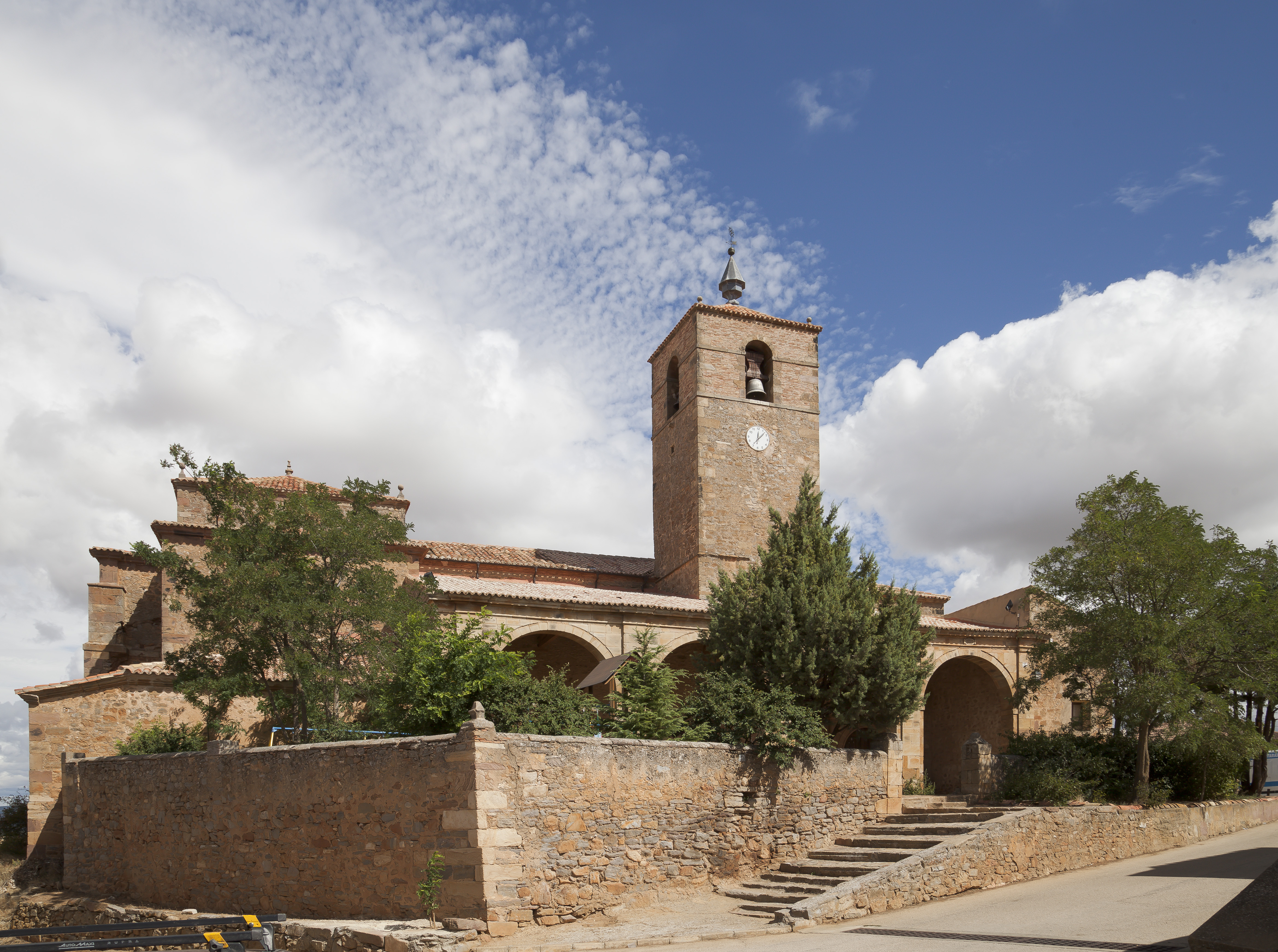 Church of the Saints Justo and Pastor, Noviercas, Spain